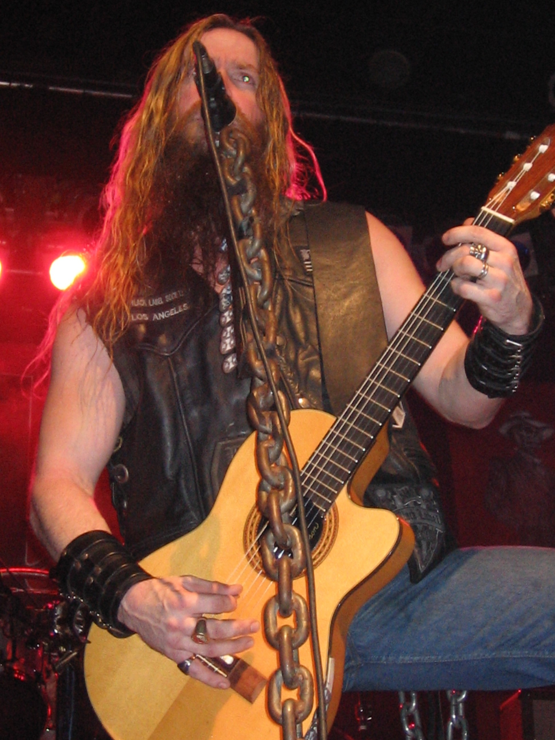 Zakk Wylde live (Recorded at The Electric Factory in Philadelphia, PA)